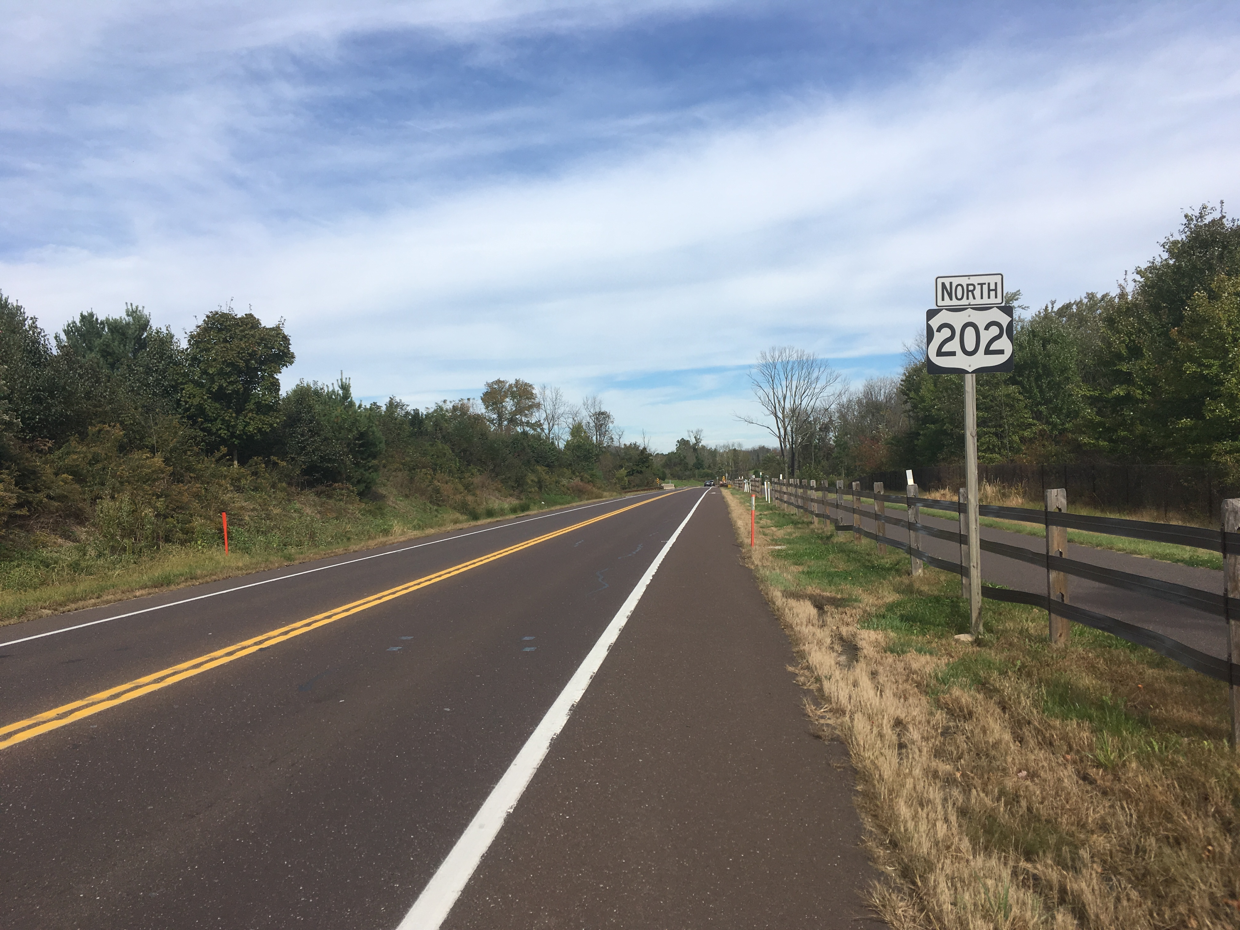 U.S Route 202 northbound between Pennsylvania Route 463 (Horsham Road) and County Line Road in Montgomery Township, Pennsylvania.